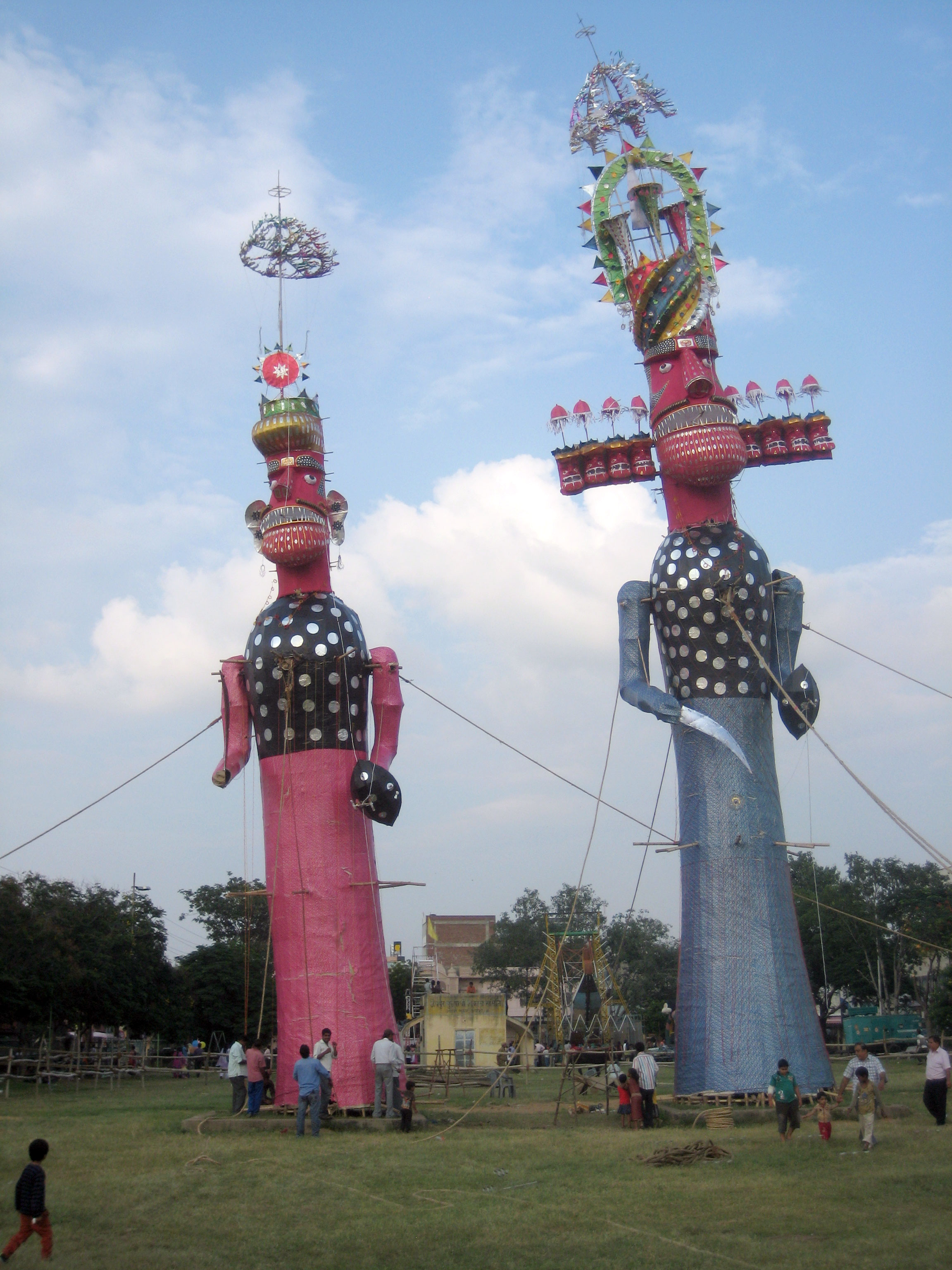 105 feet tall effigy of Ravana to be burnt on Vijayadashami festival in Jaipur along with an effigy of Kumbhakarna. On the night on Dussehra (Dasara), the effigy is lit up. Some effigies have fire crackers and fireworks that light up the sky. In some communities, it marks the start of preparations for Diwali, the festival of lights.